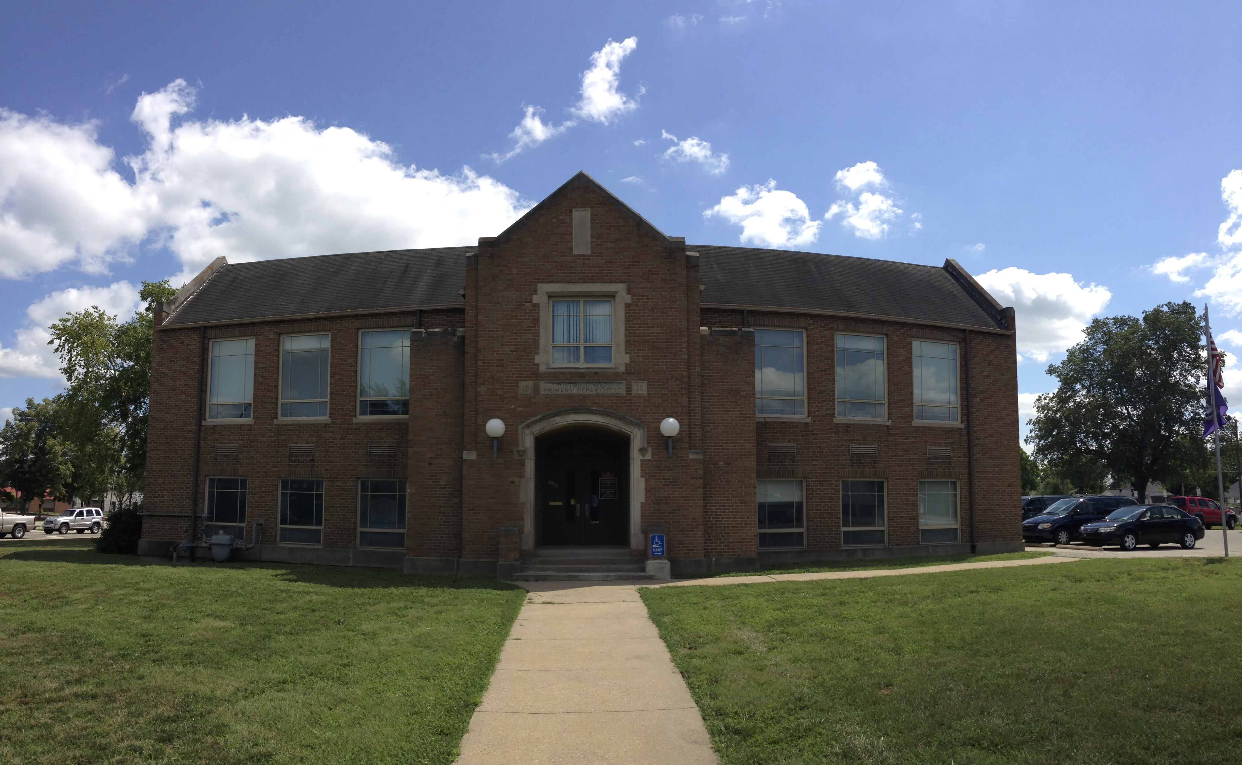 This is the former State Street Elementary school, built in 1928 designed by Norman Hill.